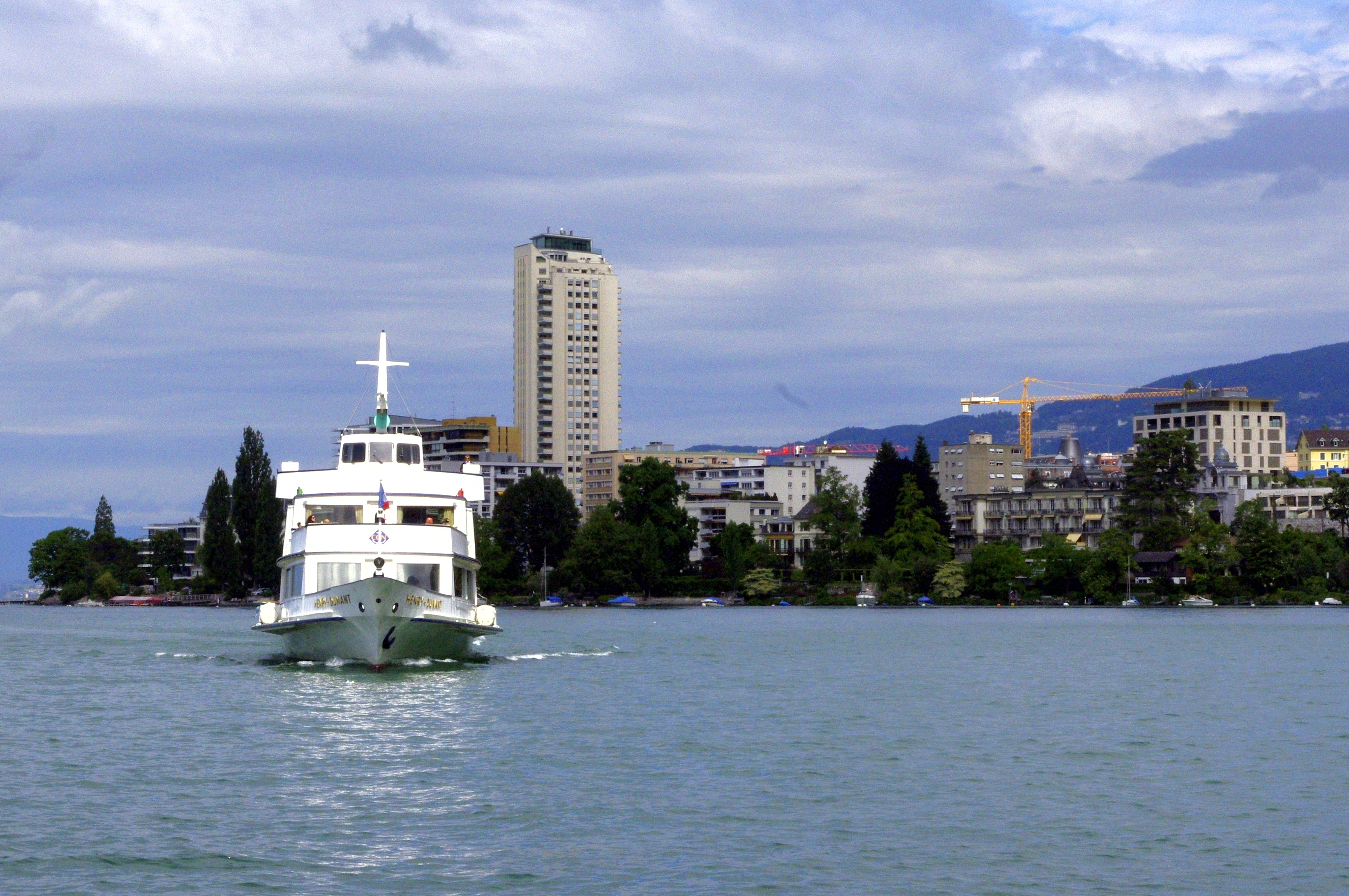 The ship Henry Dunant arriving at Territet